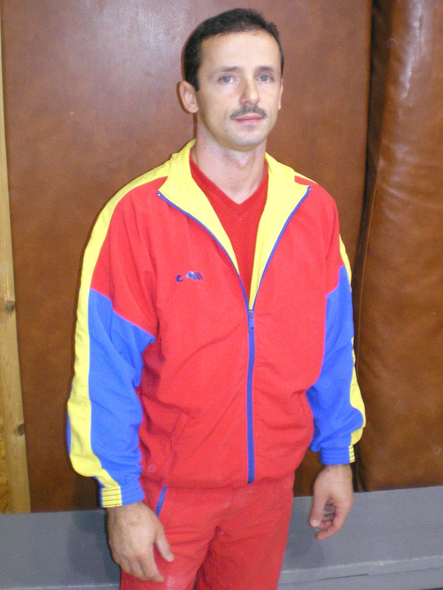 Romanian former gymnast Marius Urzica at the 2009 "Ruse Pearl" Festival of Gymnastics in Ruse, Bulgaria (as a youth coach)